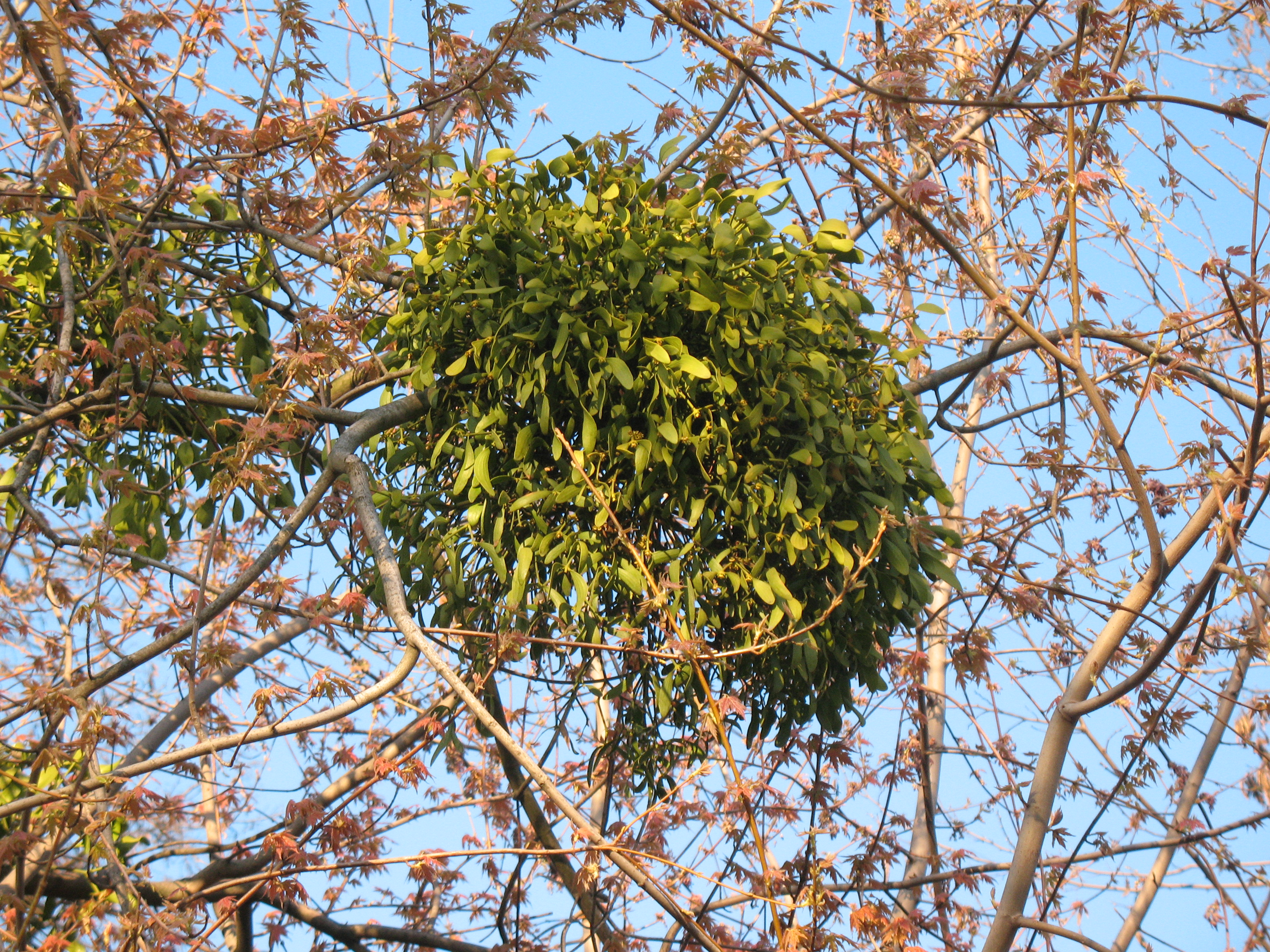 Viscum album in spring. Kharkov City.